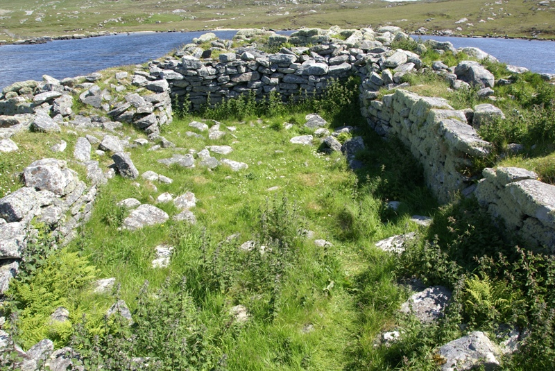 Dun an Sticir, North Uist, Outer Hebrides, Scotland